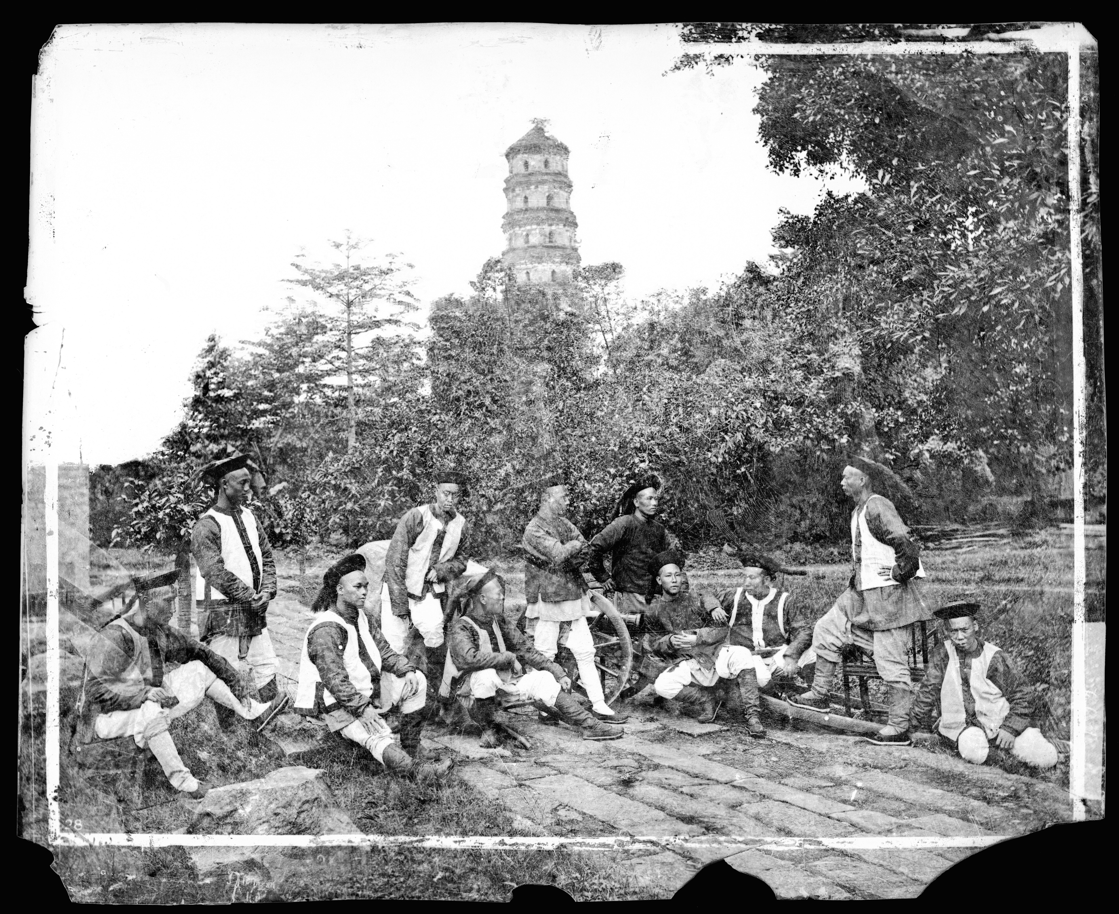 Canton (Guangzhou), Kwangtung province, China: Manchu soldiers. Photograph by John Thomson, 1869. Iconographic Collections Keywords: J. Thomson